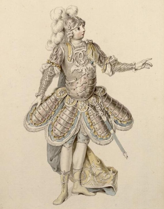 Arminio by [Johann Adolf Hasse] (staged Dresden 1753) Costume designs by Francesco Ponte (b. 1725) - Tullo (sung by Schuster) fig. 7 of 7 (+title page)